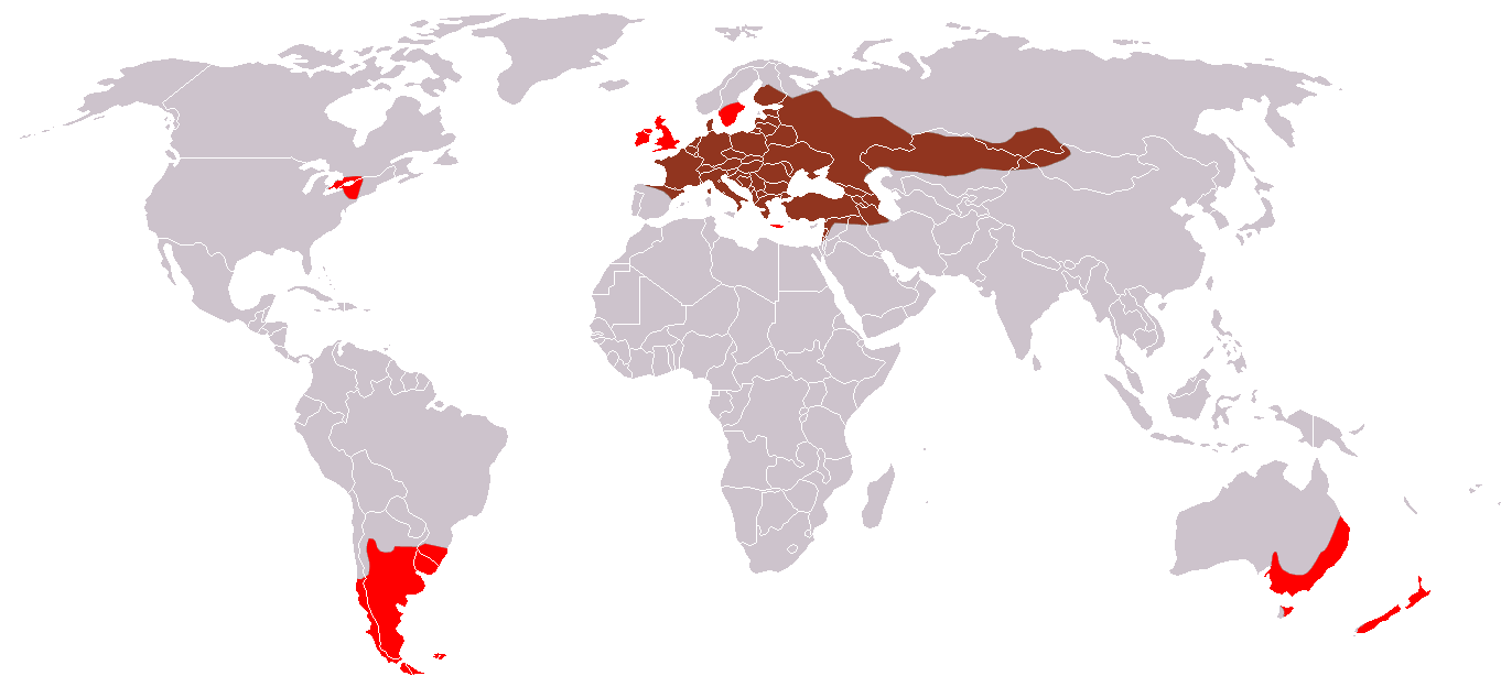 European Hare (Lepus europaeus) range (dark red - native, red - introduced)